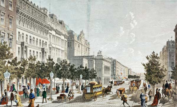 Vienna State Opera